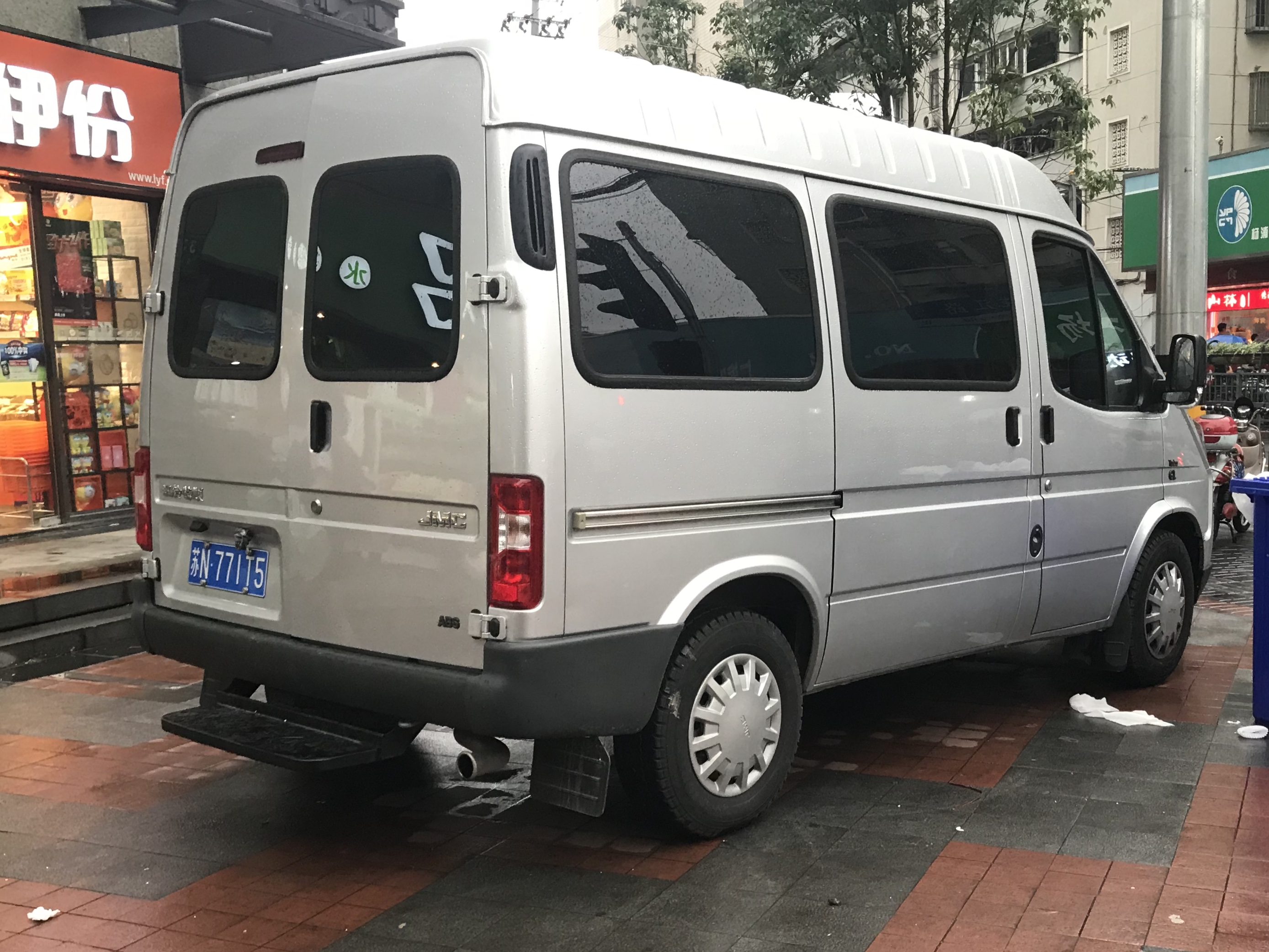 JMC Teshun